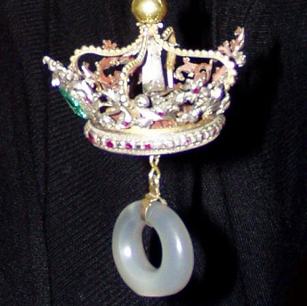 santo anello